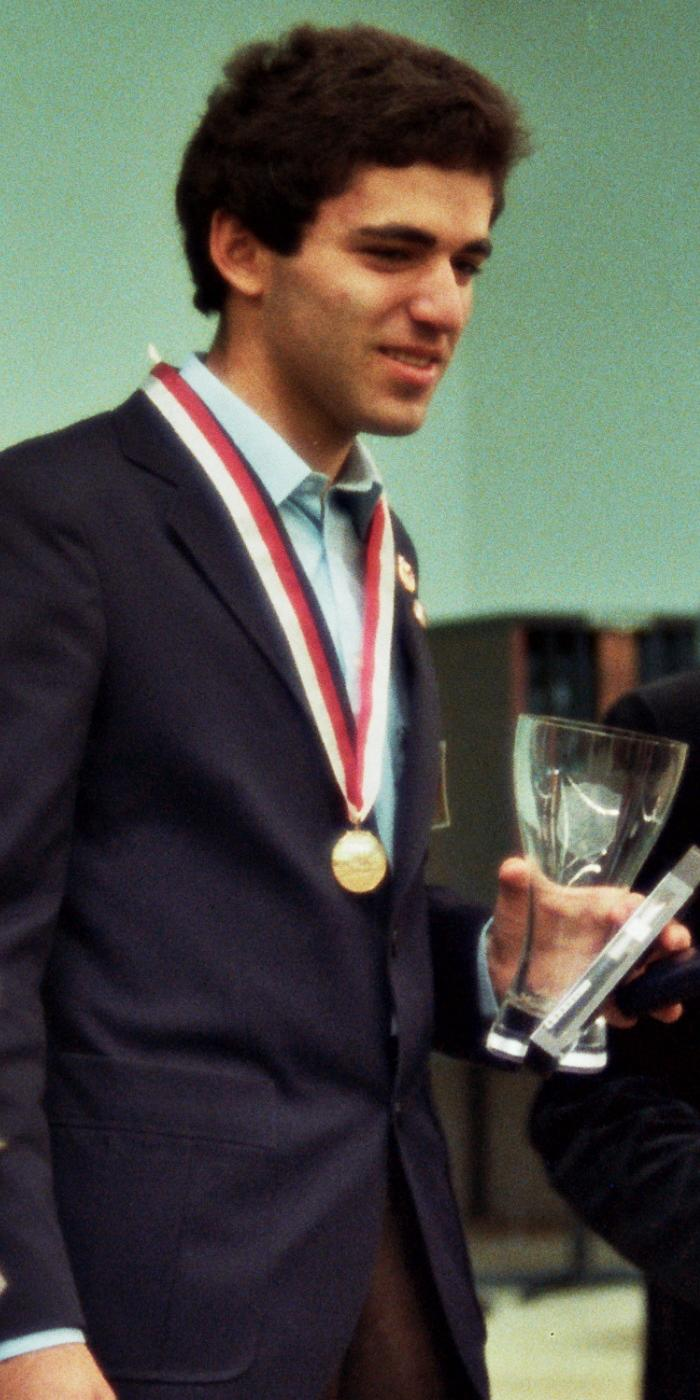 Garry Kasparov, Junior World Championship 1980 at Dortmund, Photographer Gerhard Hund.